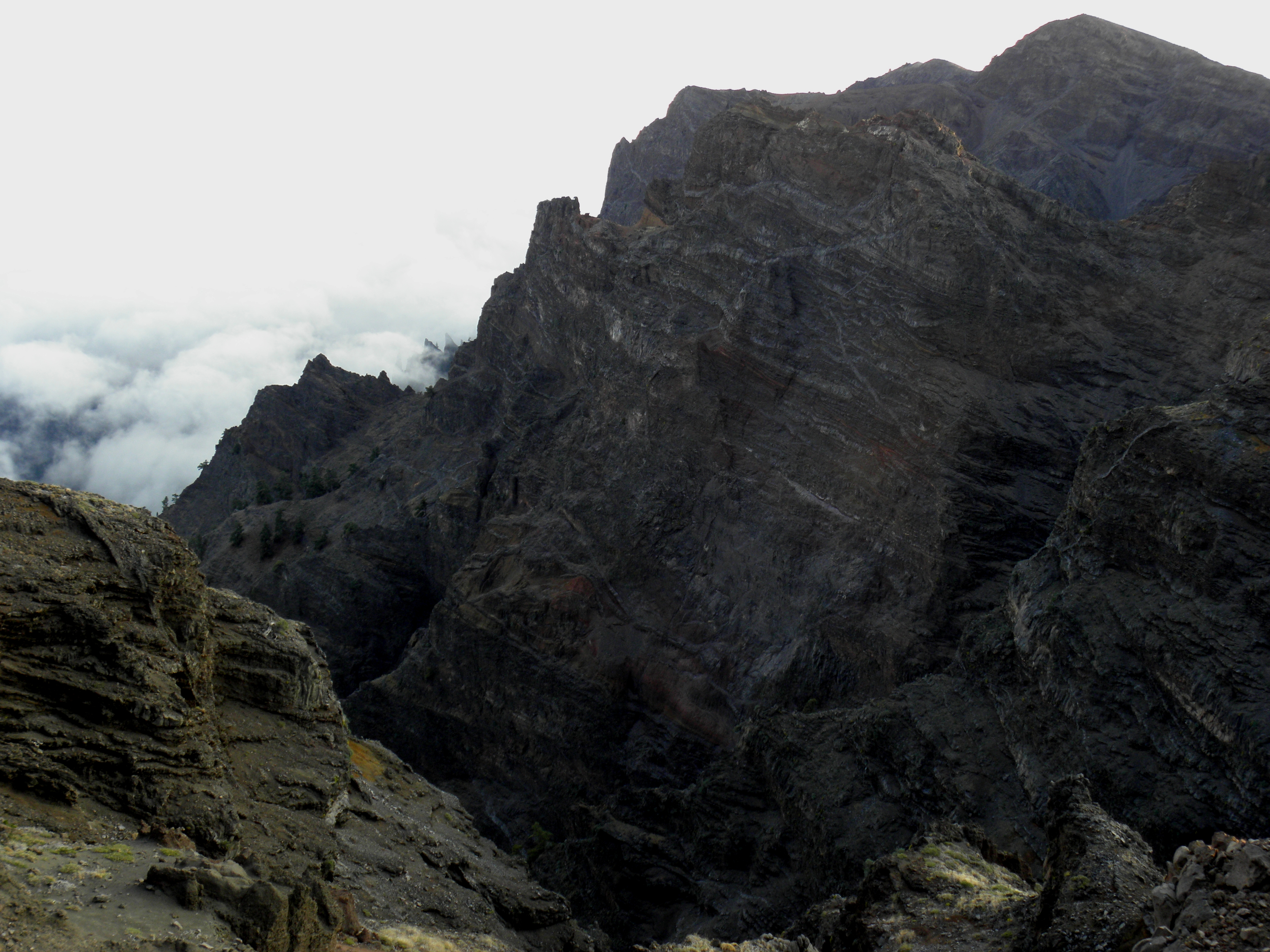 Walls of the Caldera de Taburiente on La Palma, looking southwards.